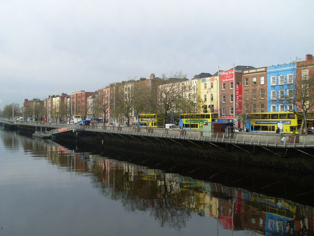 Bachelor's Walk Stretch of road on the north bank of the Liffey. Seen from the O'Connell Bridge.